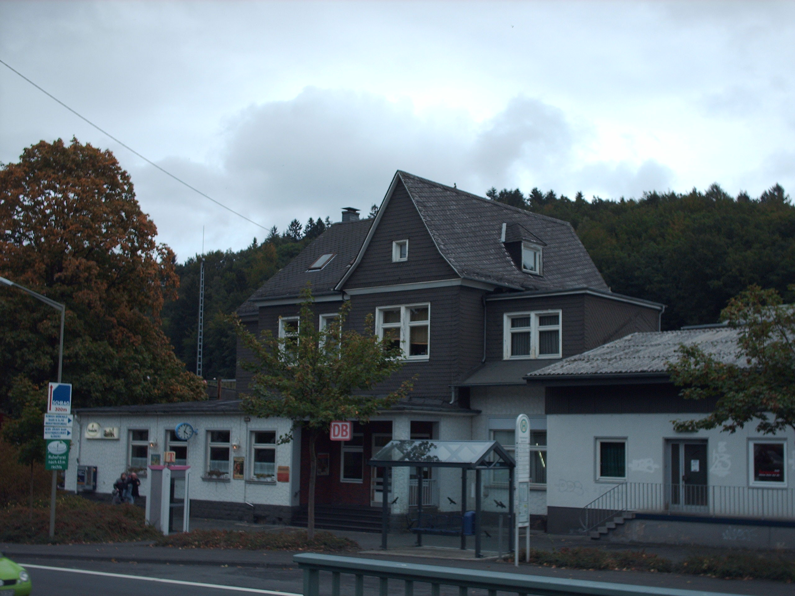 Hilchenbach station, Hilchenbach, Germany check usage